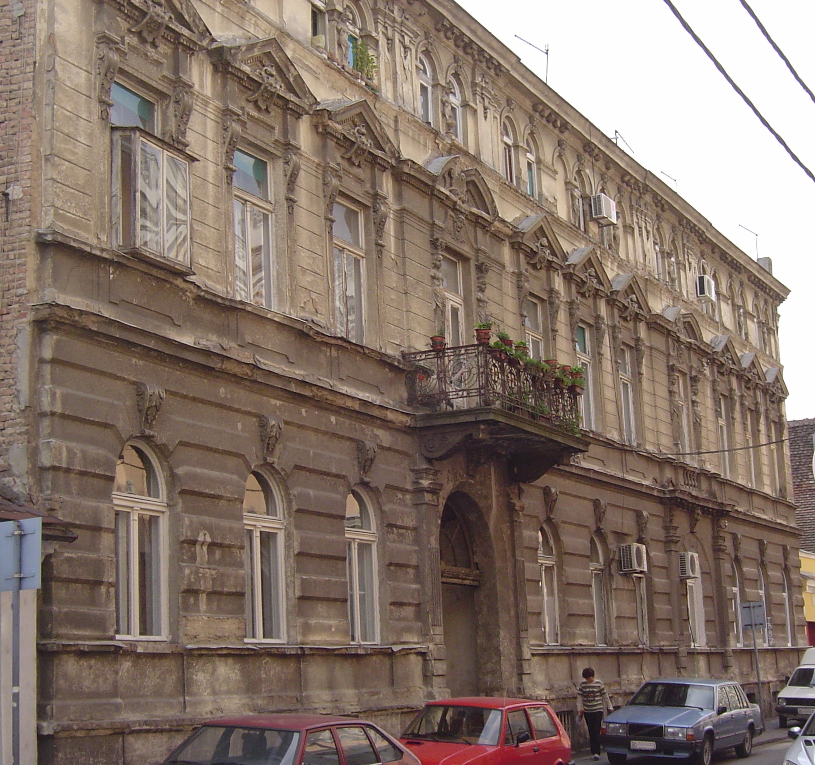 House in Svetosavska Street in Zemun, projected and built by Franjo Jenč in 1895.